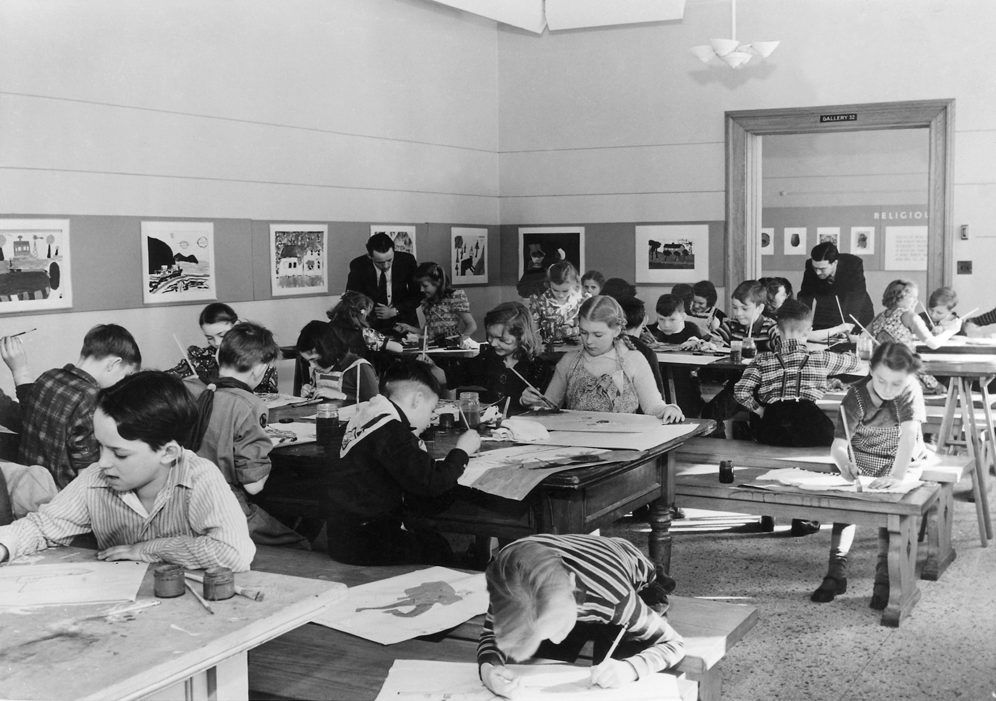 Photograph of children's art class at the Walker Art Center in Minneapolis, Minnesota, one of the community art centers operated by the Federal Art Project